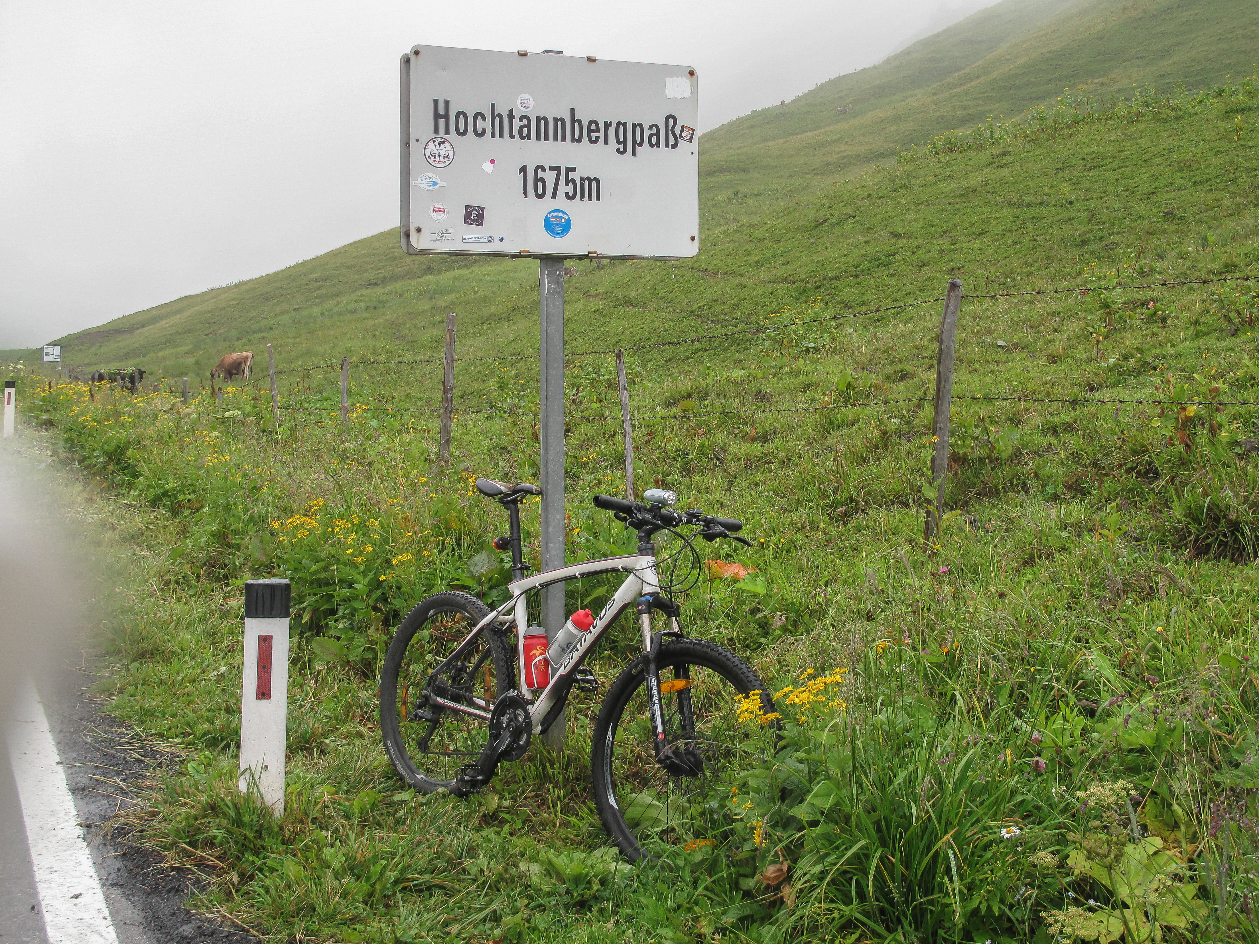 Hochtannberghpass, name sign